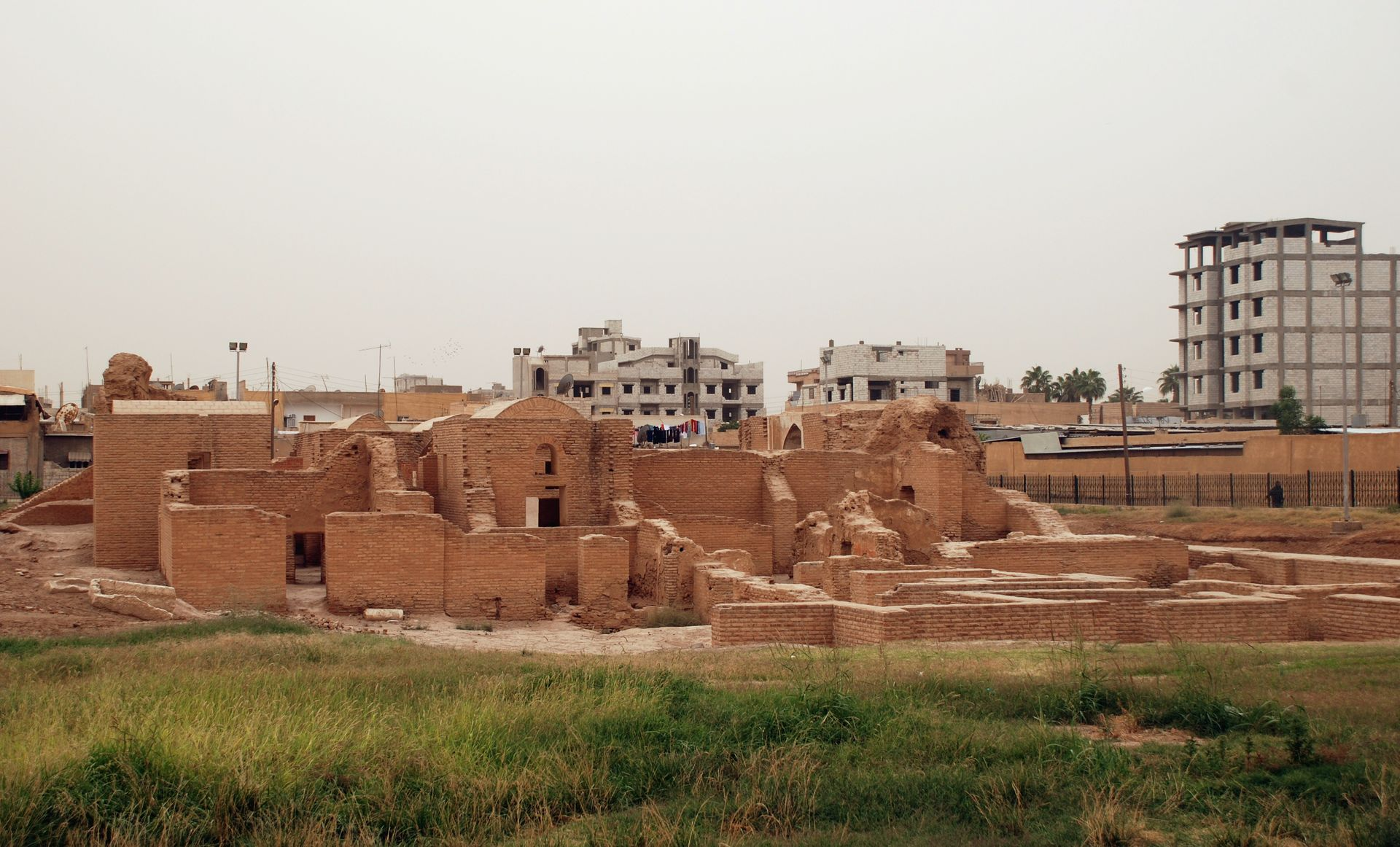 Raqqa, Syria, Qasr al-Banat from east